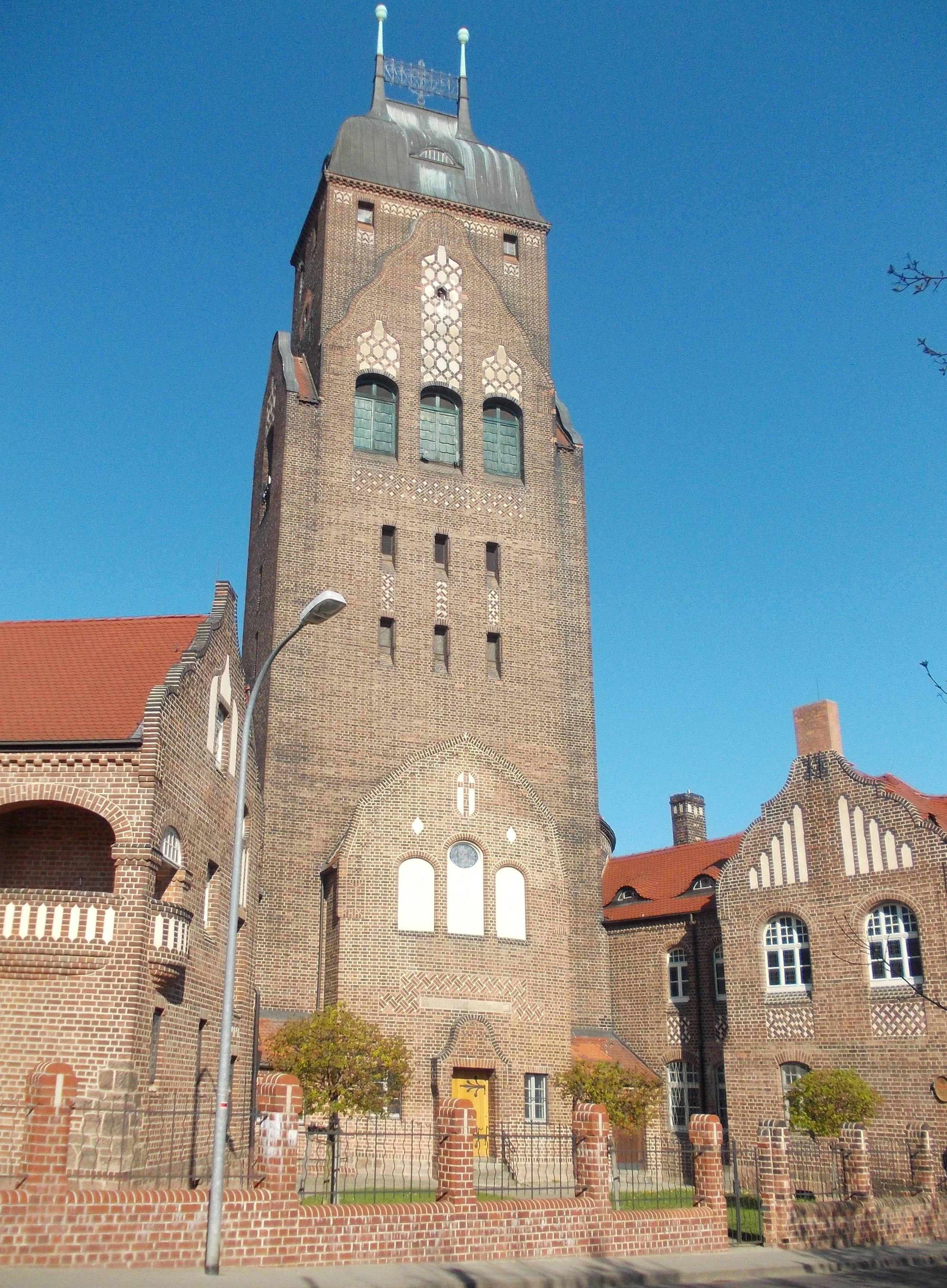 St. Martin's Church in Köthen (Anhalt-Bitterfeld district, Saxony-Anhalt)